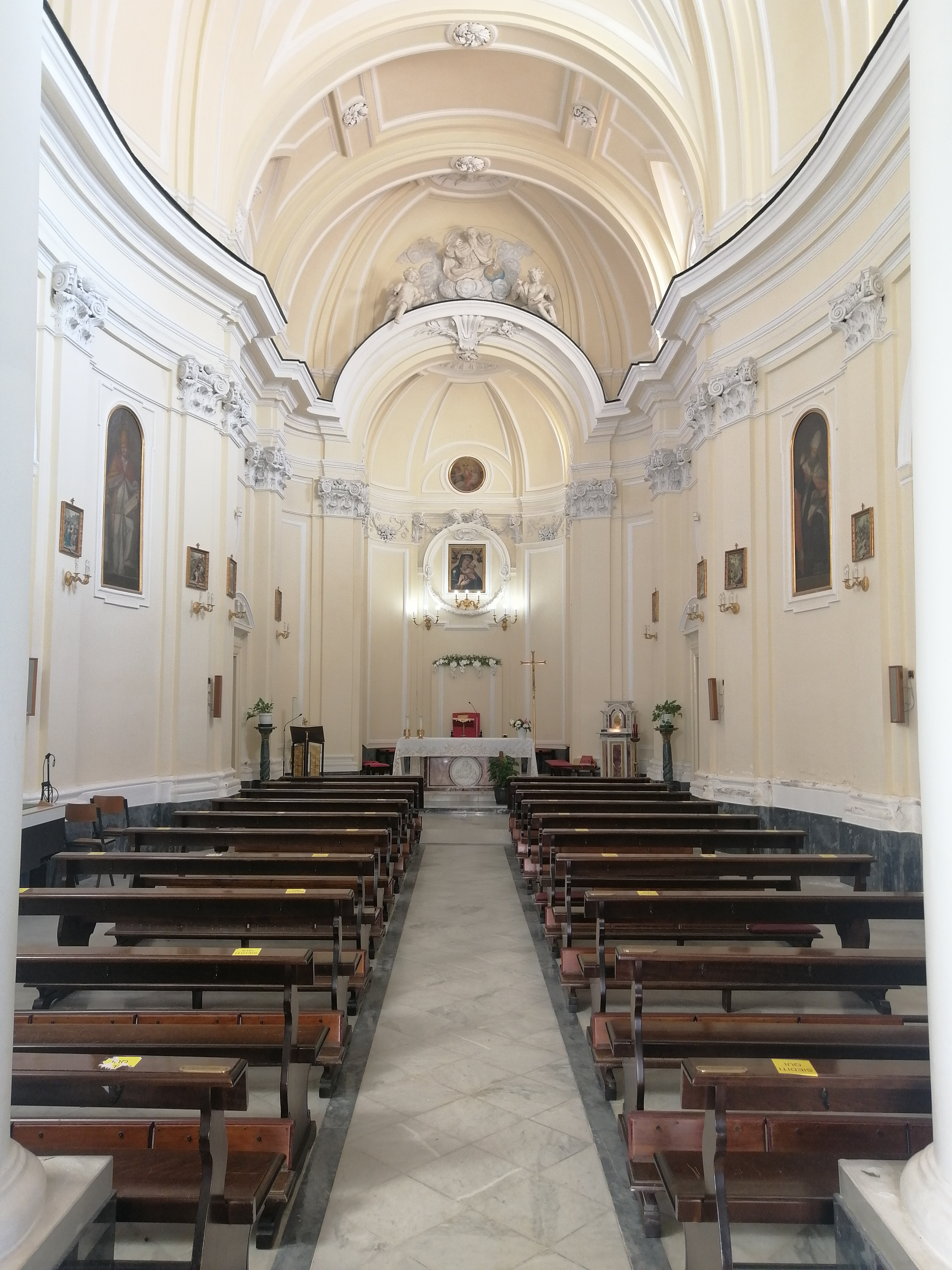 Central nave of the church of Santa Maria del Carmine.